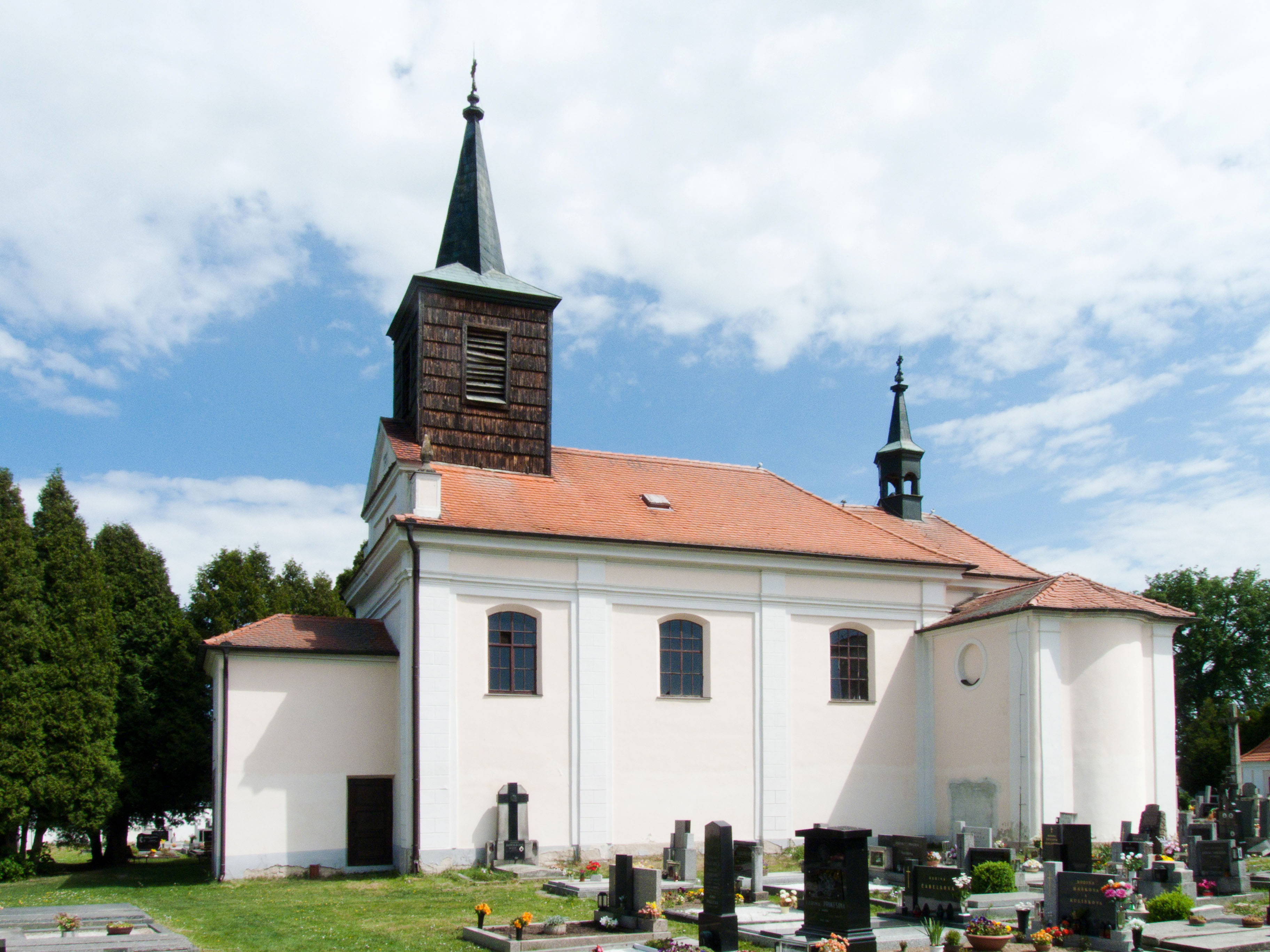 ++ Church in the village of Janov, part of Roudná, Tábor District, Czech Republic surrounded by a cemetery.